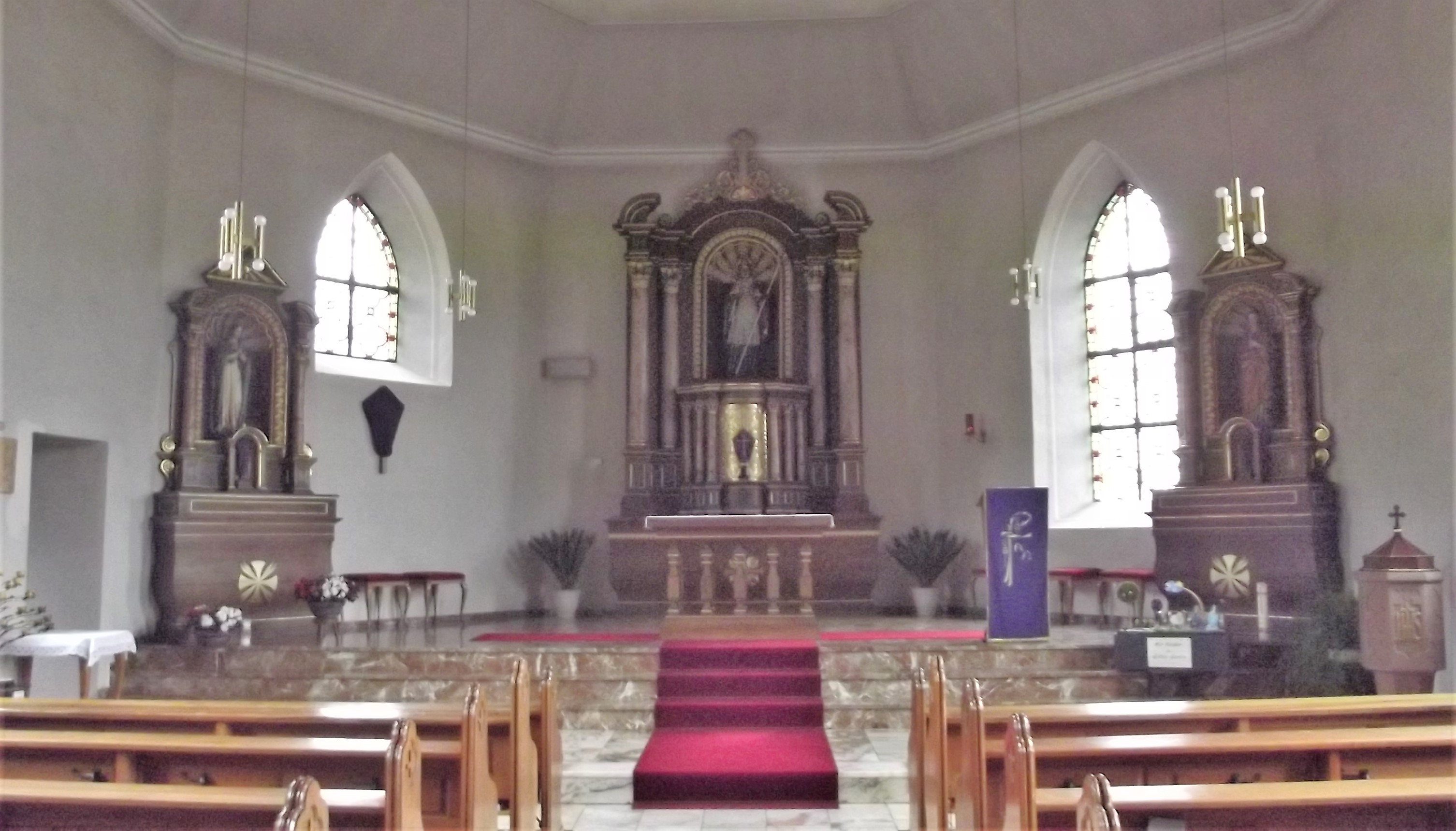 Interior of the roman catholic church in Rissenthal, Saarland